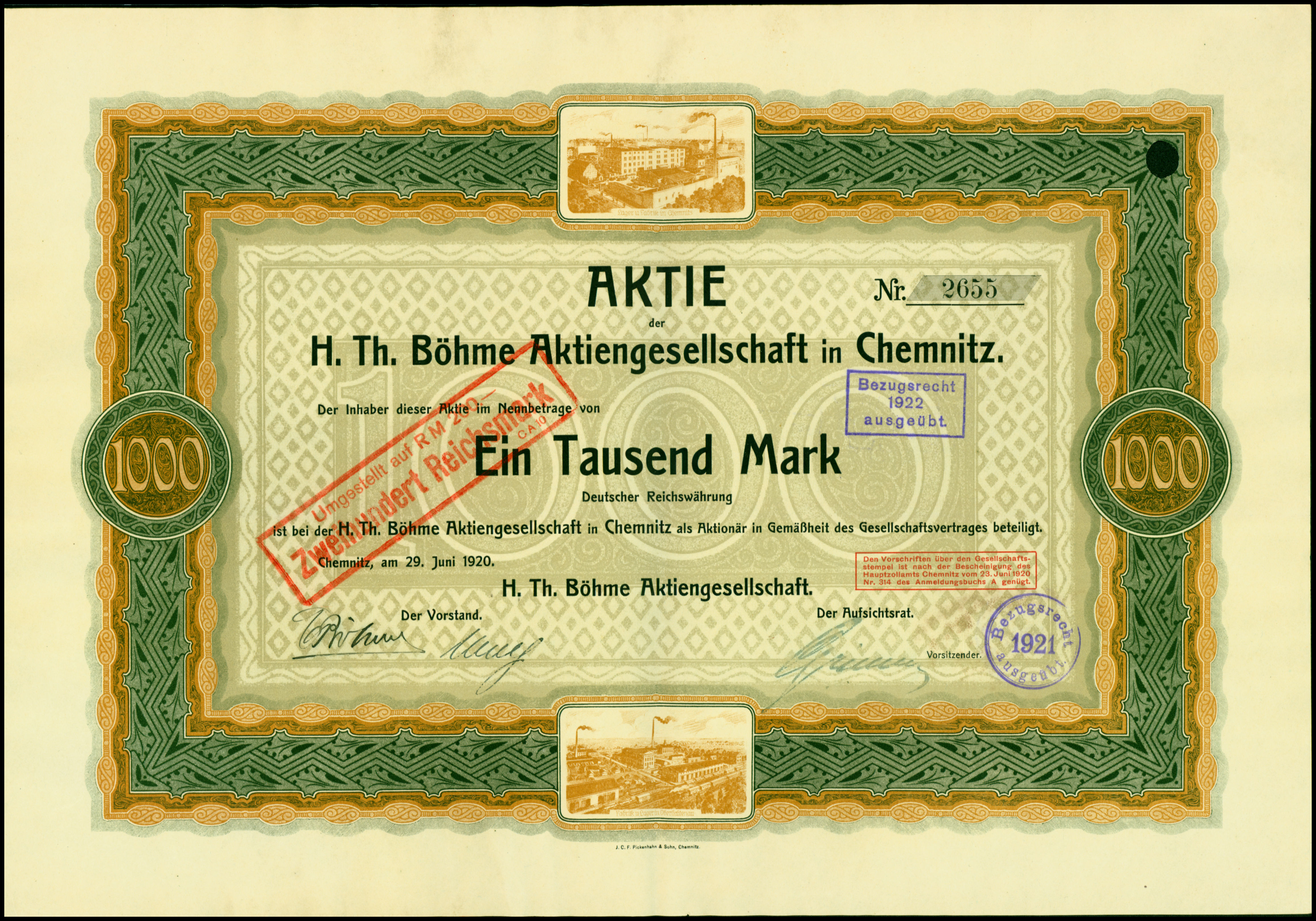 Share of the H. Th. Böhme AG, issued 29. June 1920